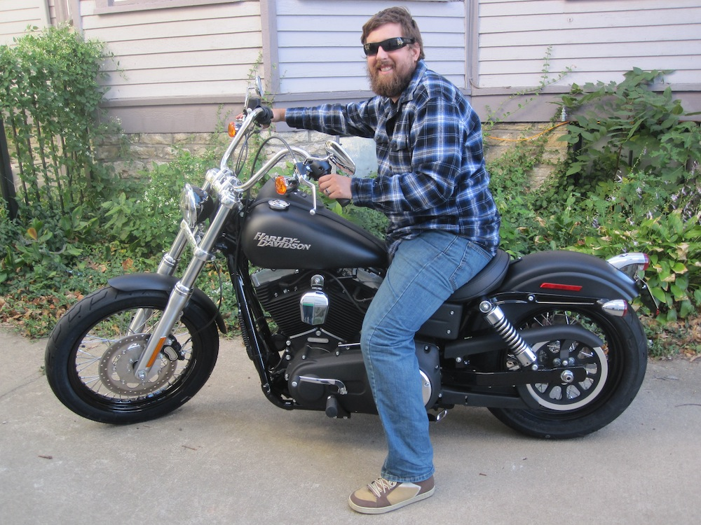 2011 Harley Davidson Street Bob.